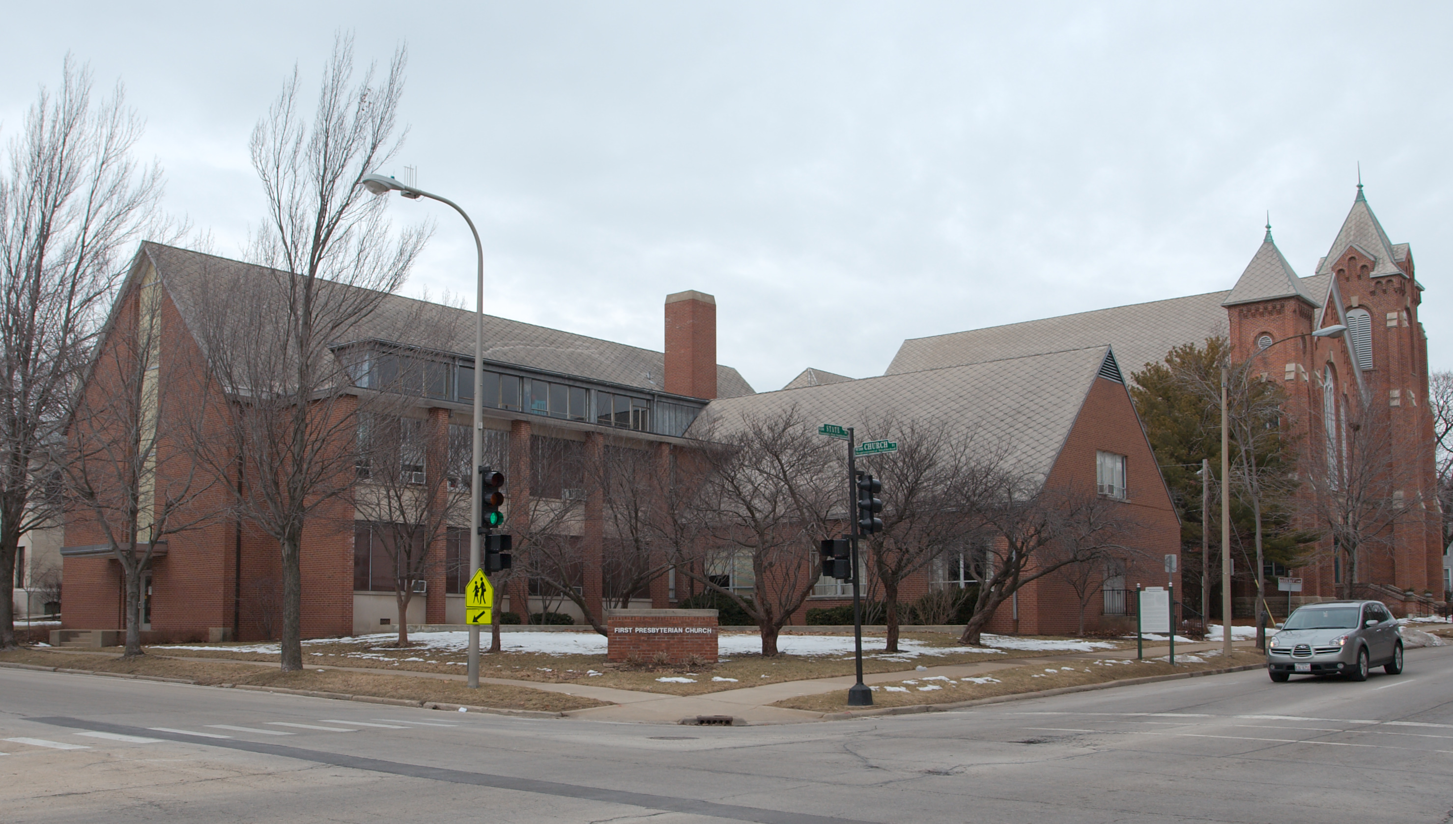 Intersection of Church and State, First Presbytarian Church, Champaign, IL